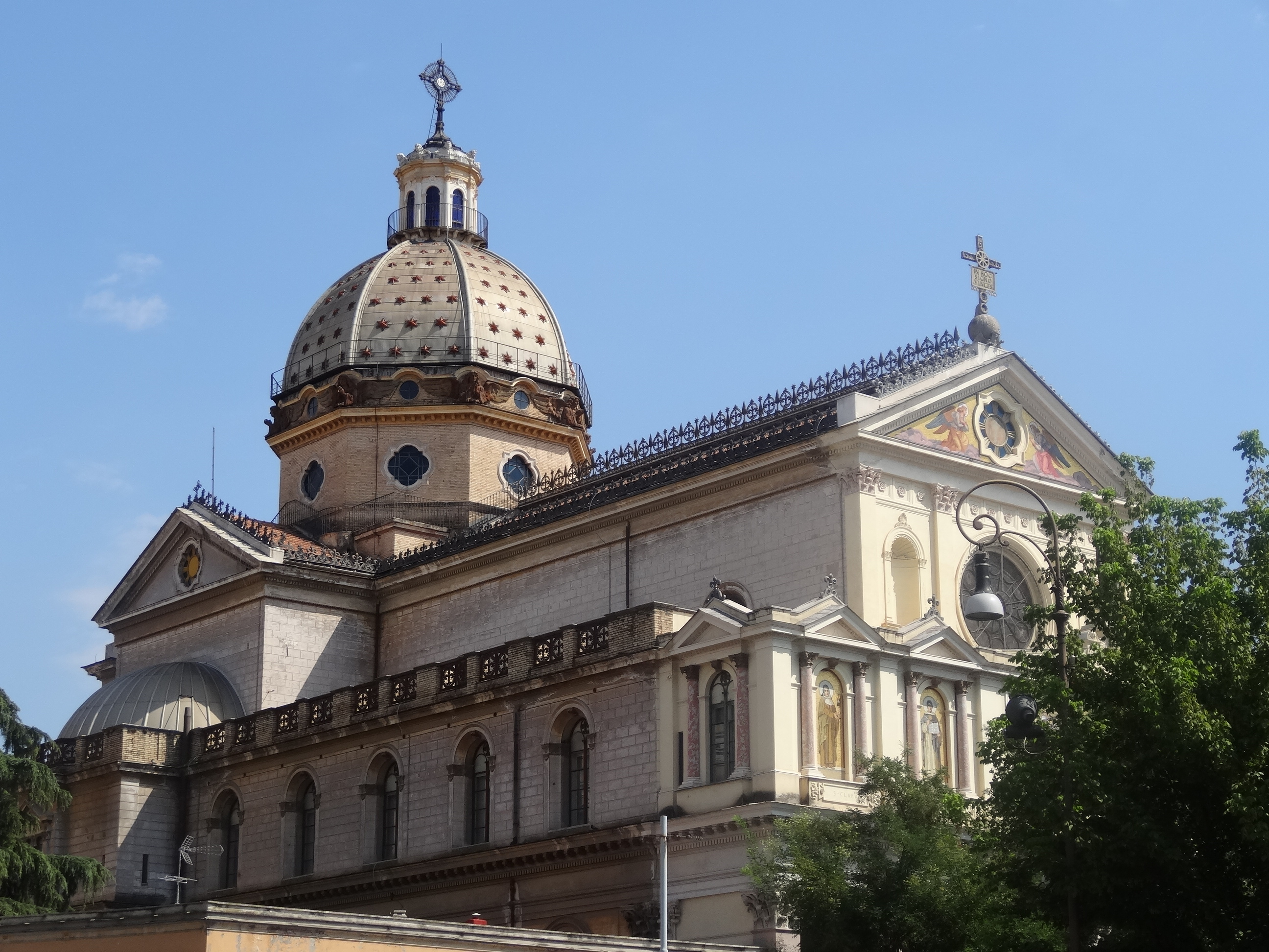 San Gioacchino in Prati